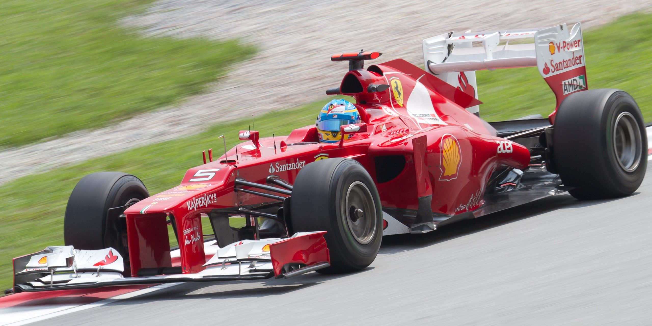 Formula One 2012 Rd.2 Malaysian GP: Fernando Alonso (Ferrari) during the first practice session on Friday.